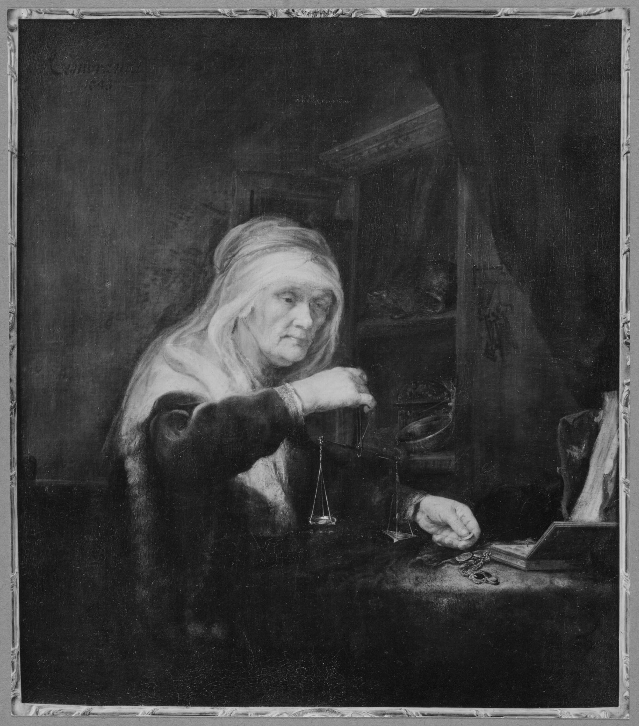 This image is available from the Netherlands Institute for Art Historyunder digital ID 208236. This tag does not indicate the copyright status of the attached work. A normal copyright tag is still required. See Commons:Licensing.